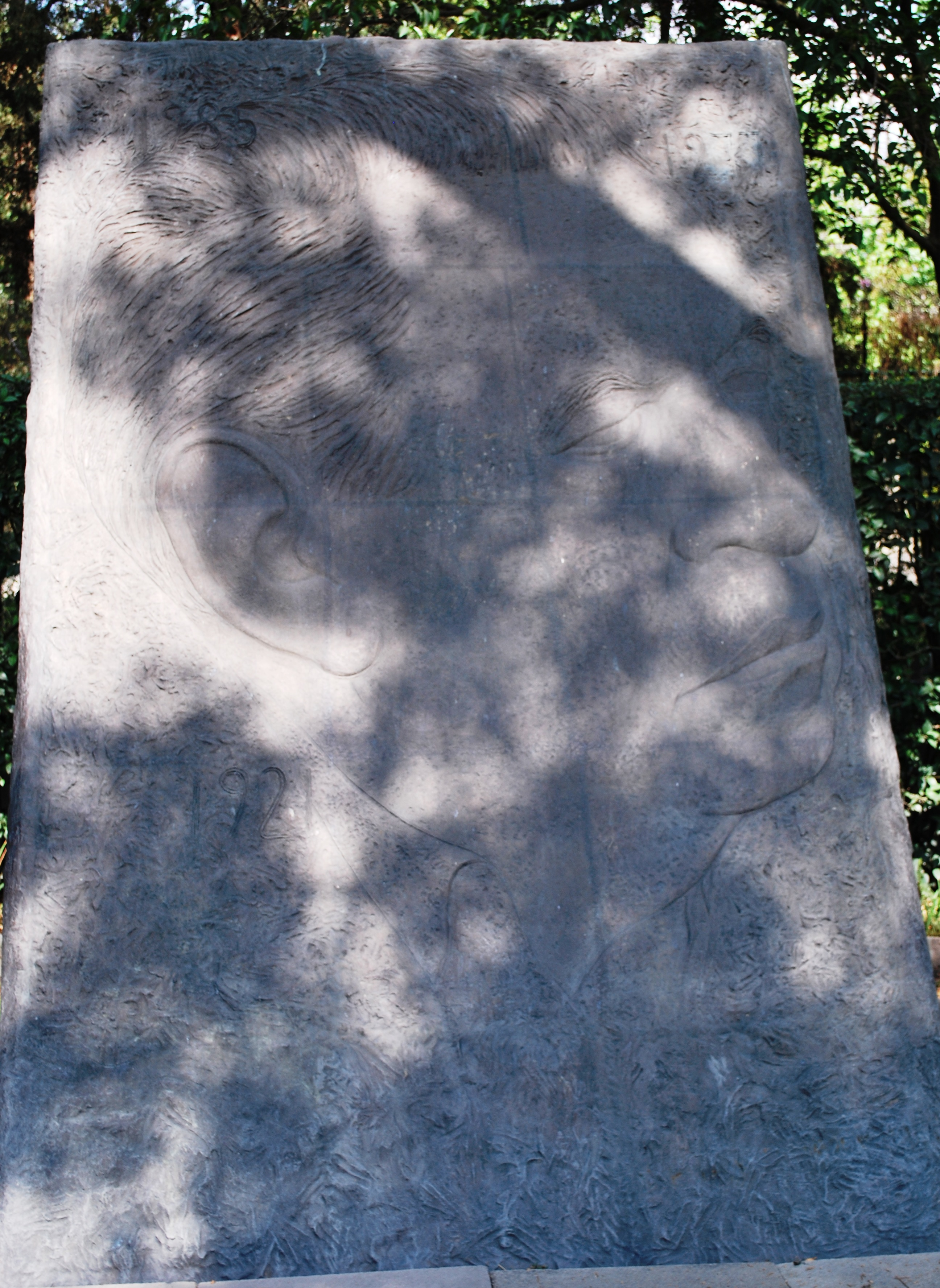 Tomb of Jesus Reyes Heroles in the Panteon Civil de Dolores cemetery in Mexico City